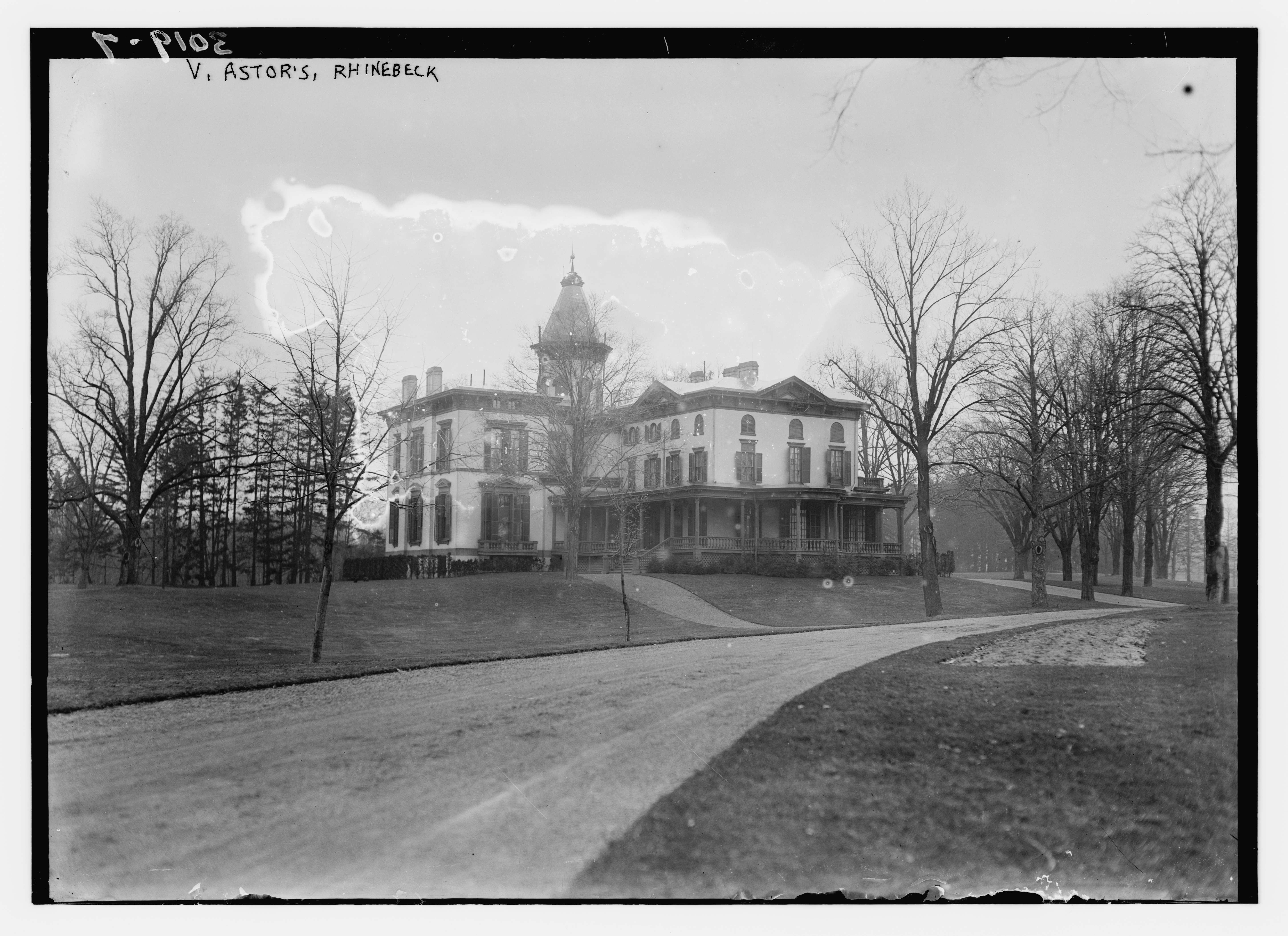 V. Astor's, Rhinebeck Photo shows Ferncliff, the Rhinebeck, New York home of businessman William Vincent Astor (1891-1959). Created: [between ca. 1910 and ca. 1915] Glass negatives.